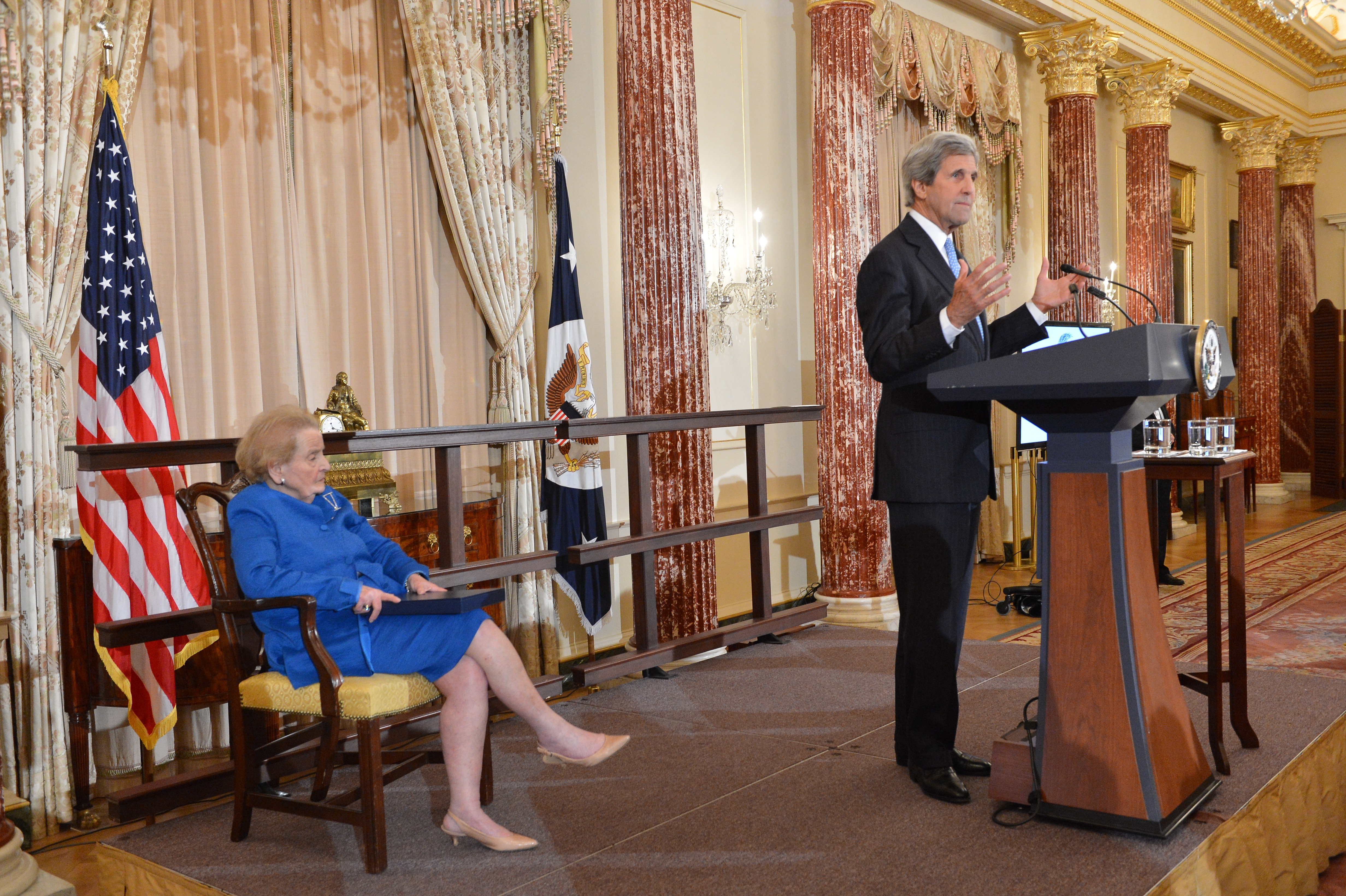 U.S. Secretary of State John Kerry gives remarks at the Truman Foundation Fortieth Anniversary Event as former Secretary of State Madeleine Albright looks on at the U.S. Department of State in Washington D.C. on June 22, 2016. [State Department photo/ Public Domain]